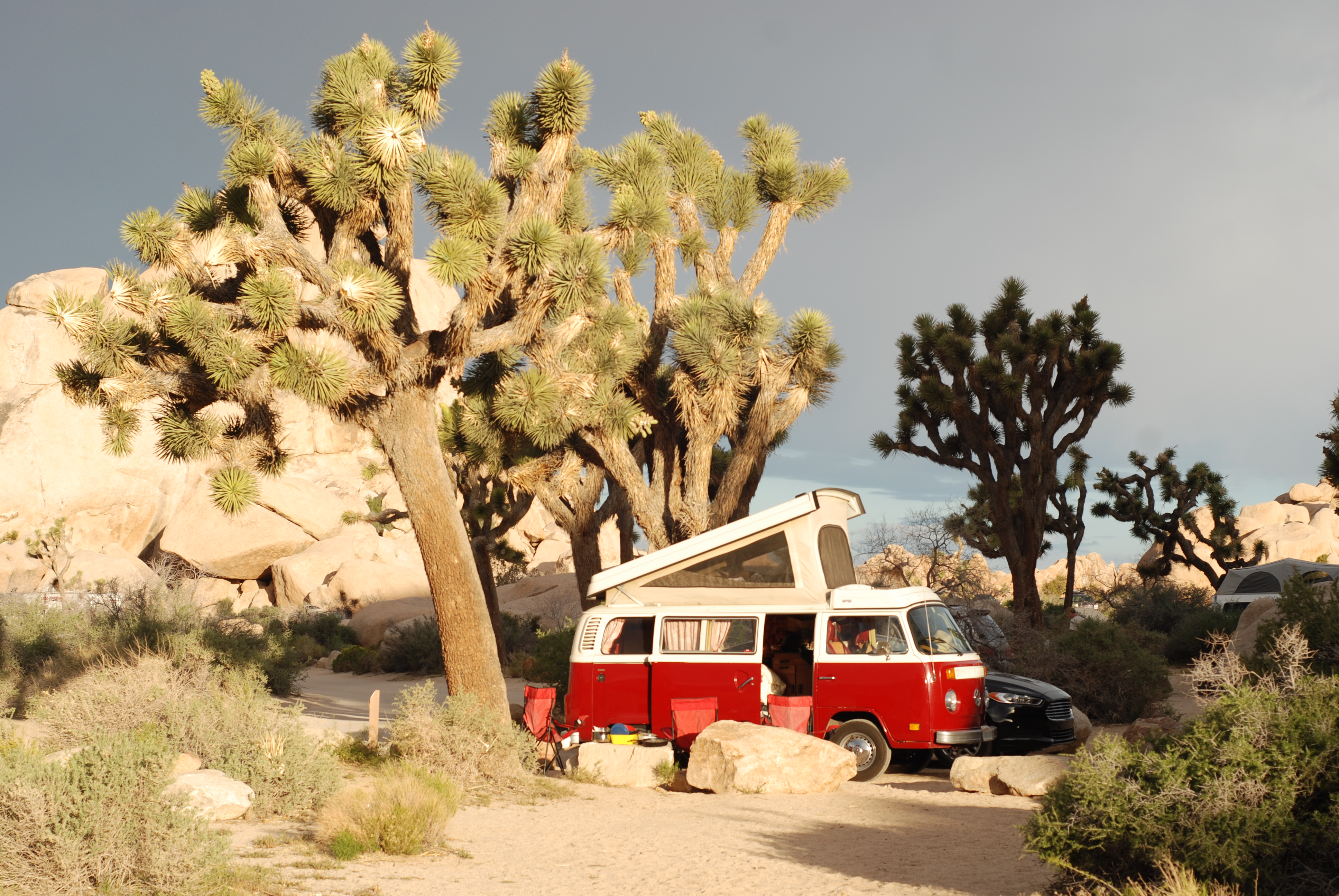 VW Buss and Joshua Trees (Yucca brevifolia) in Joshua Tree National Park: Hidden Valley Campground site #1